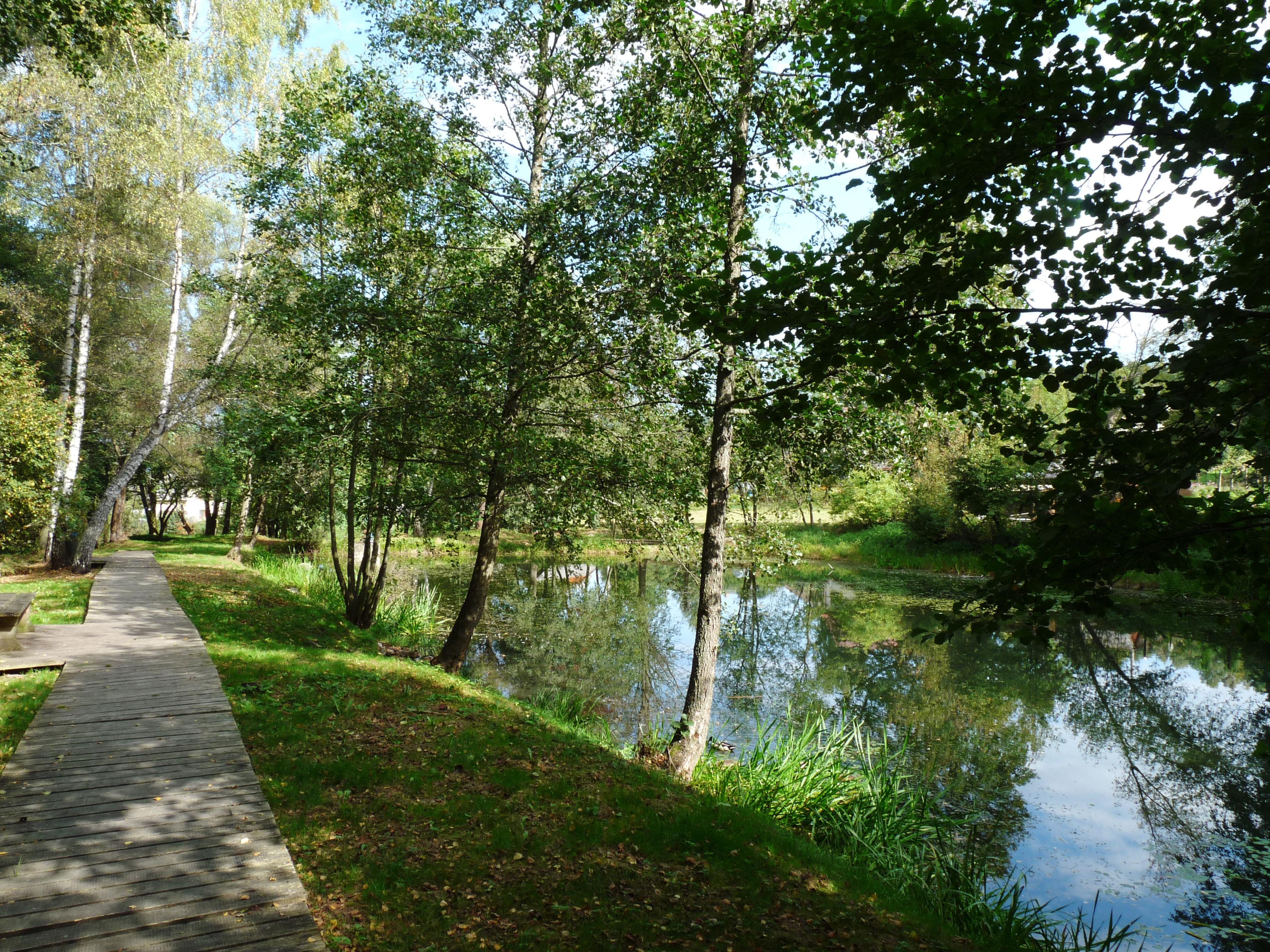 Château park in the village and municipality of Zdíkov in Prachatice District, Czech Republic. Česky: Zámecký park v obci Zdíkov v okrese Prachatice.